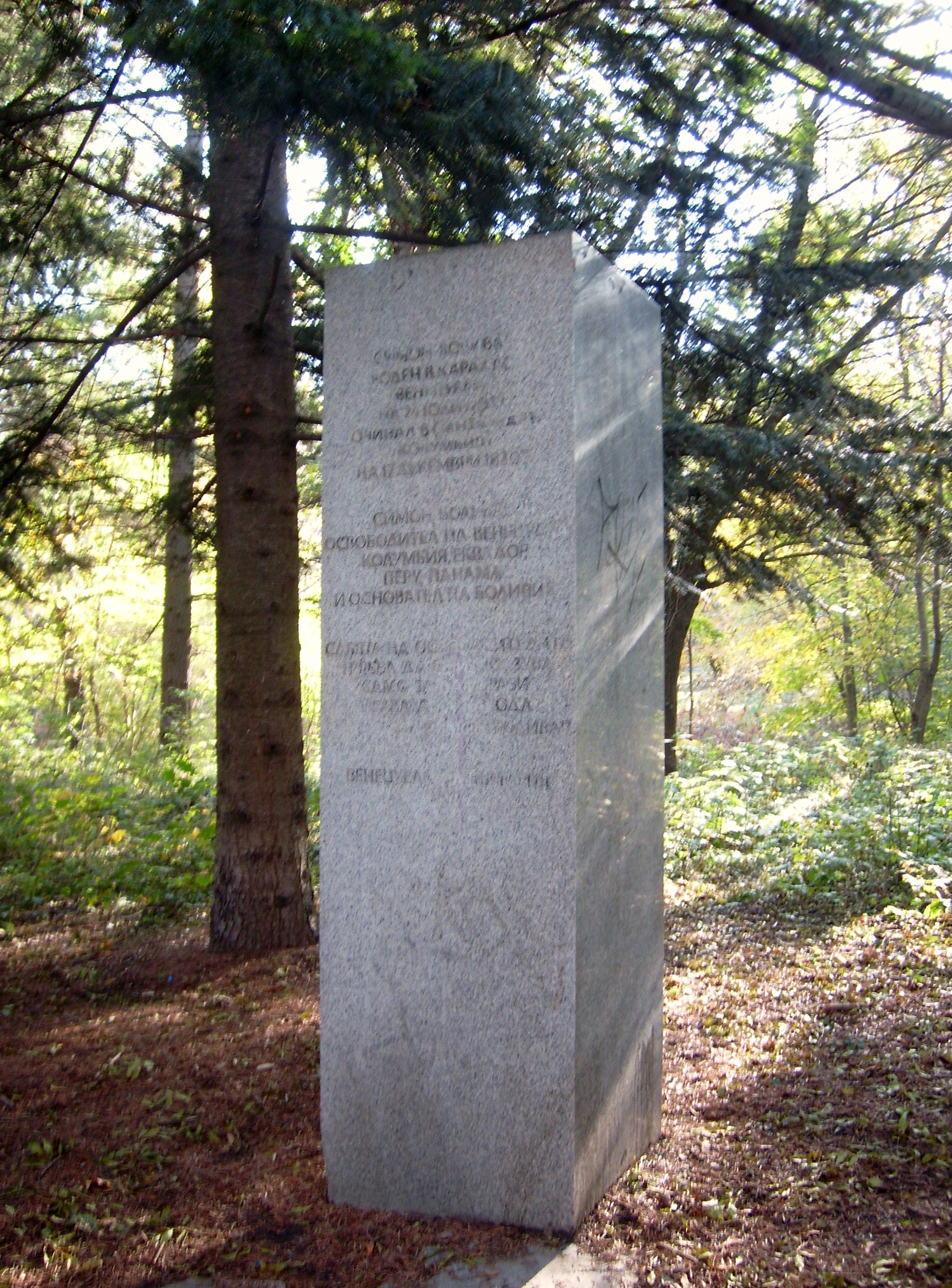 Monument of Simon Bolivar in the Southern Park in Sofia, Bulgaria